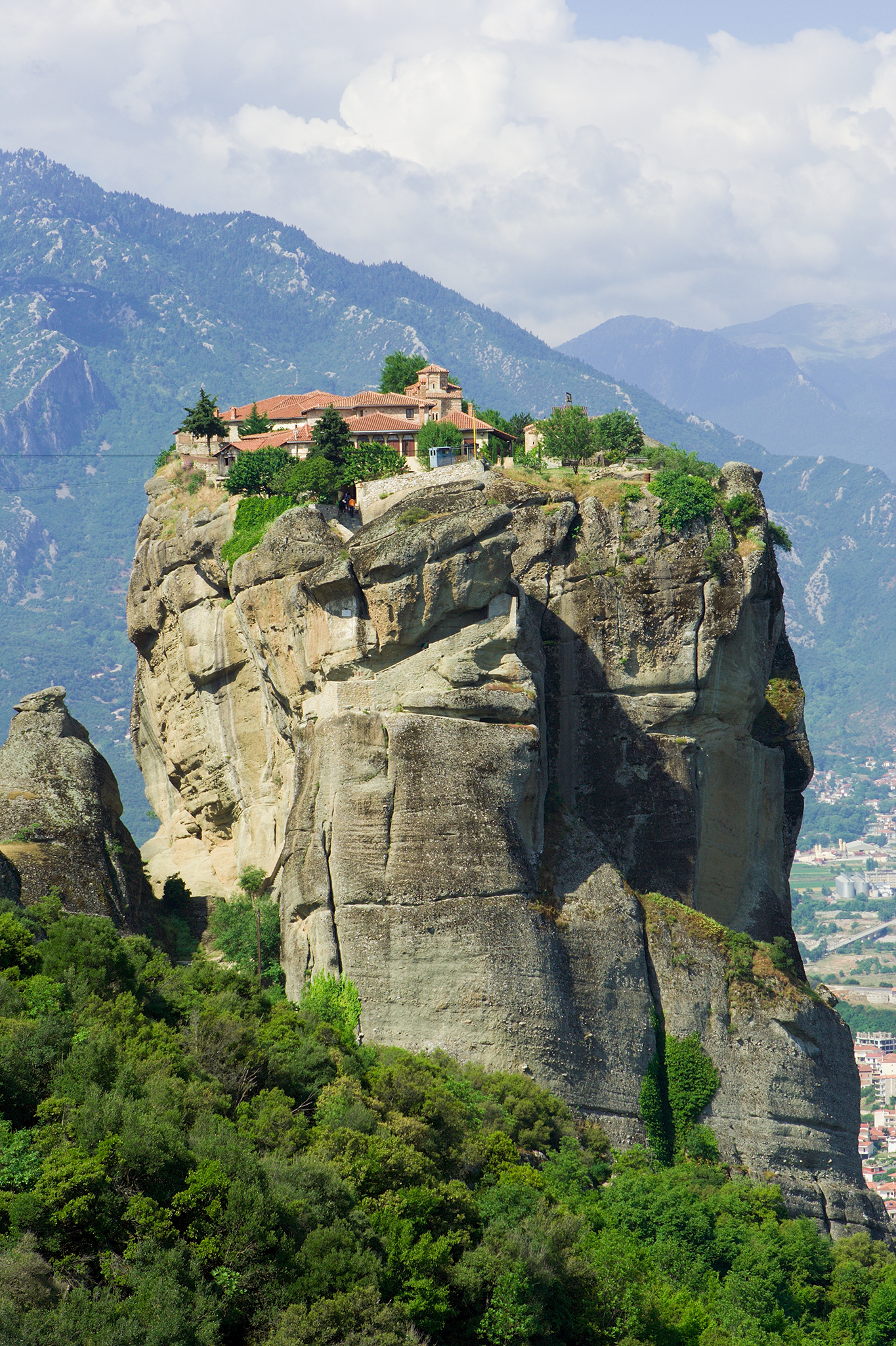 Moni Agios Triadas, Meteora, Greece